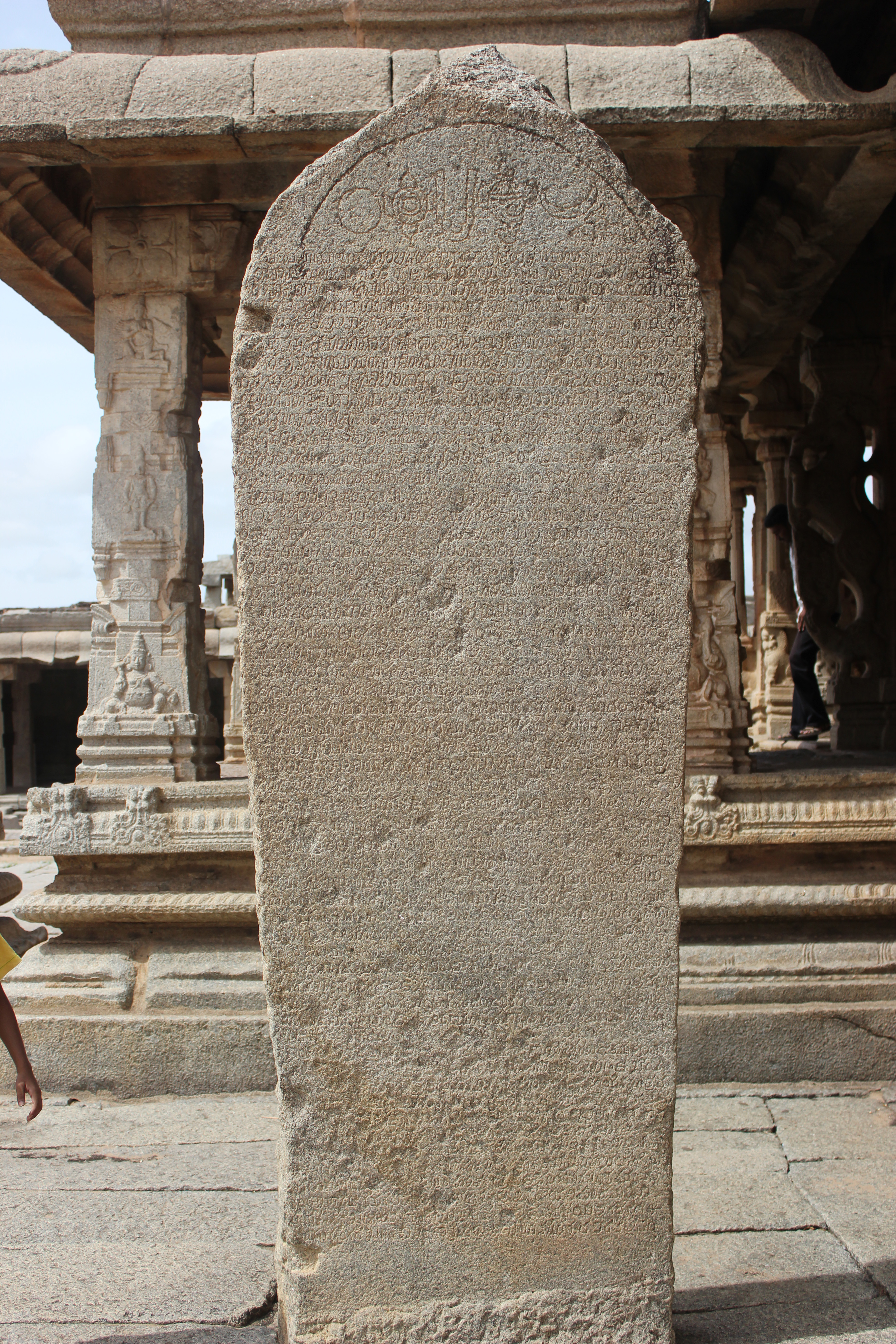 This photograph of a Kannada language inscription dated 1513 A.D. of King Krishnadeva Raya was taken by me in the Krishna temple at Hampi, a UNESCO world heritage site in Bellary district, Karnataka state, India. The inscription describes the king's victories over the Gajapati Kingdom of Orissa